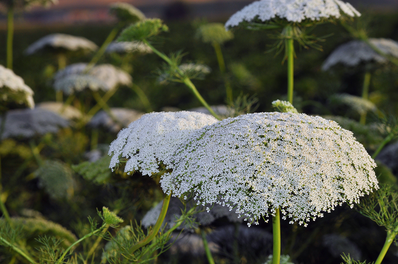 Ammi visnaga L.